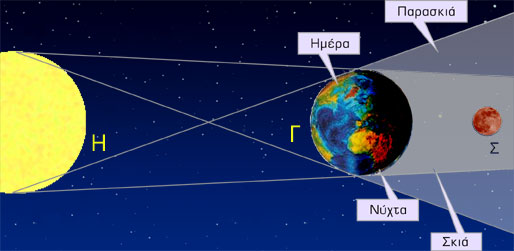 Lunar eclipse graph in Greek